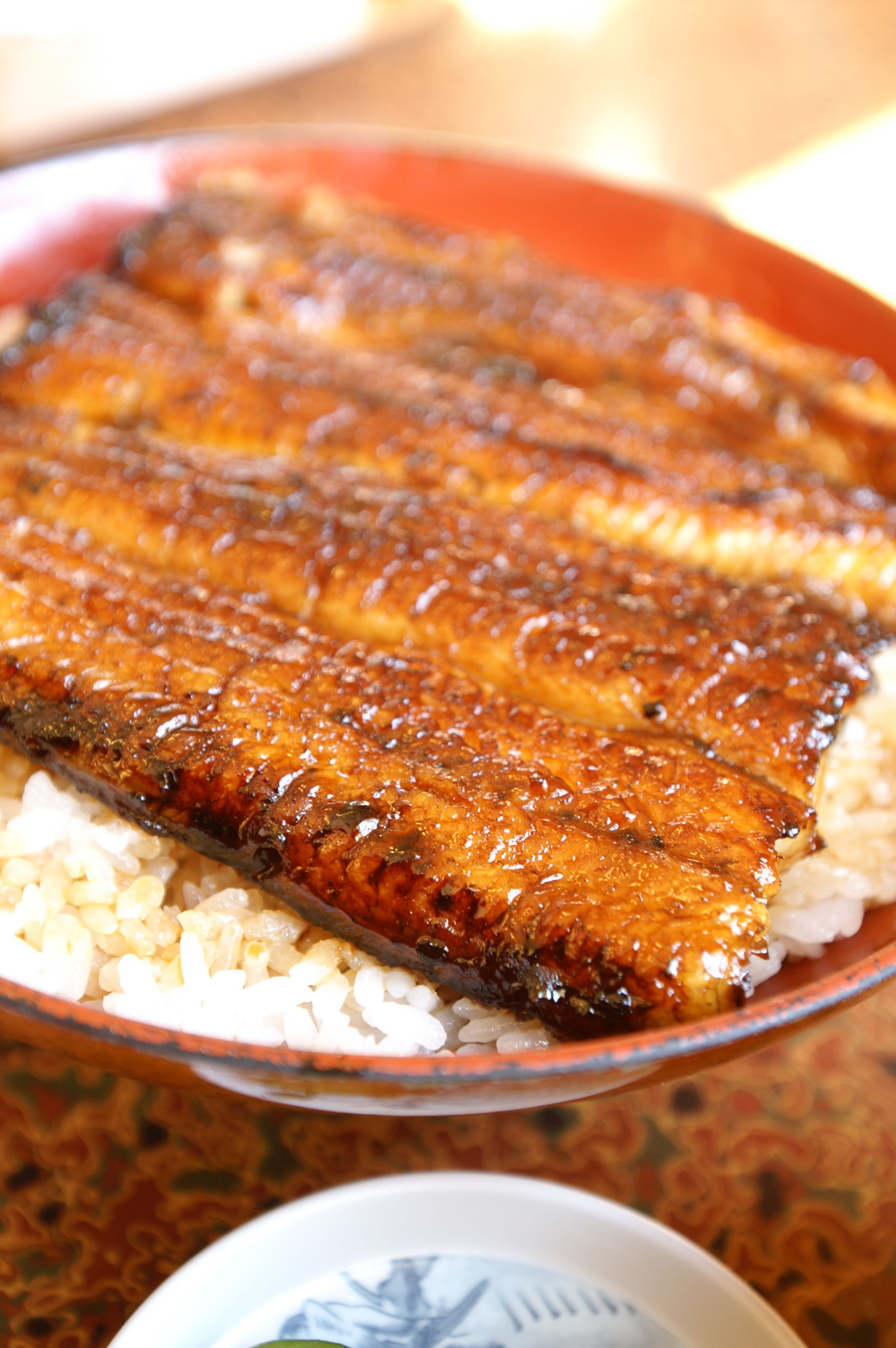 Unadon